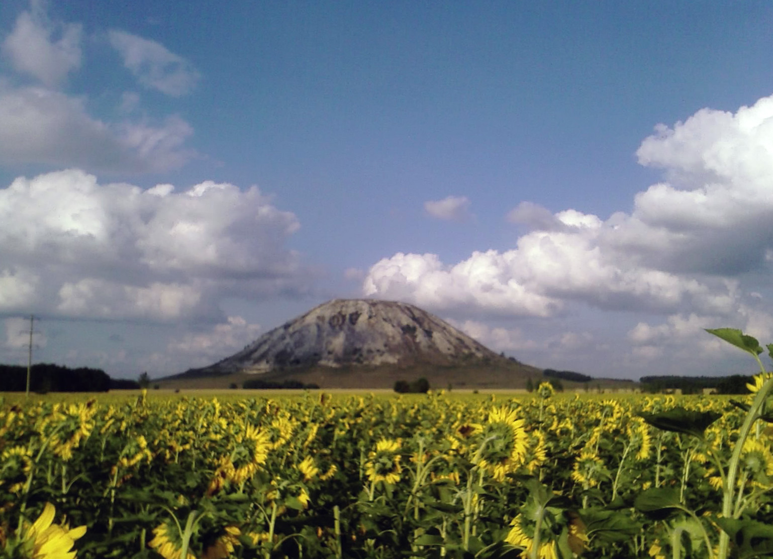 Shihan Toratau, Bashkortostan